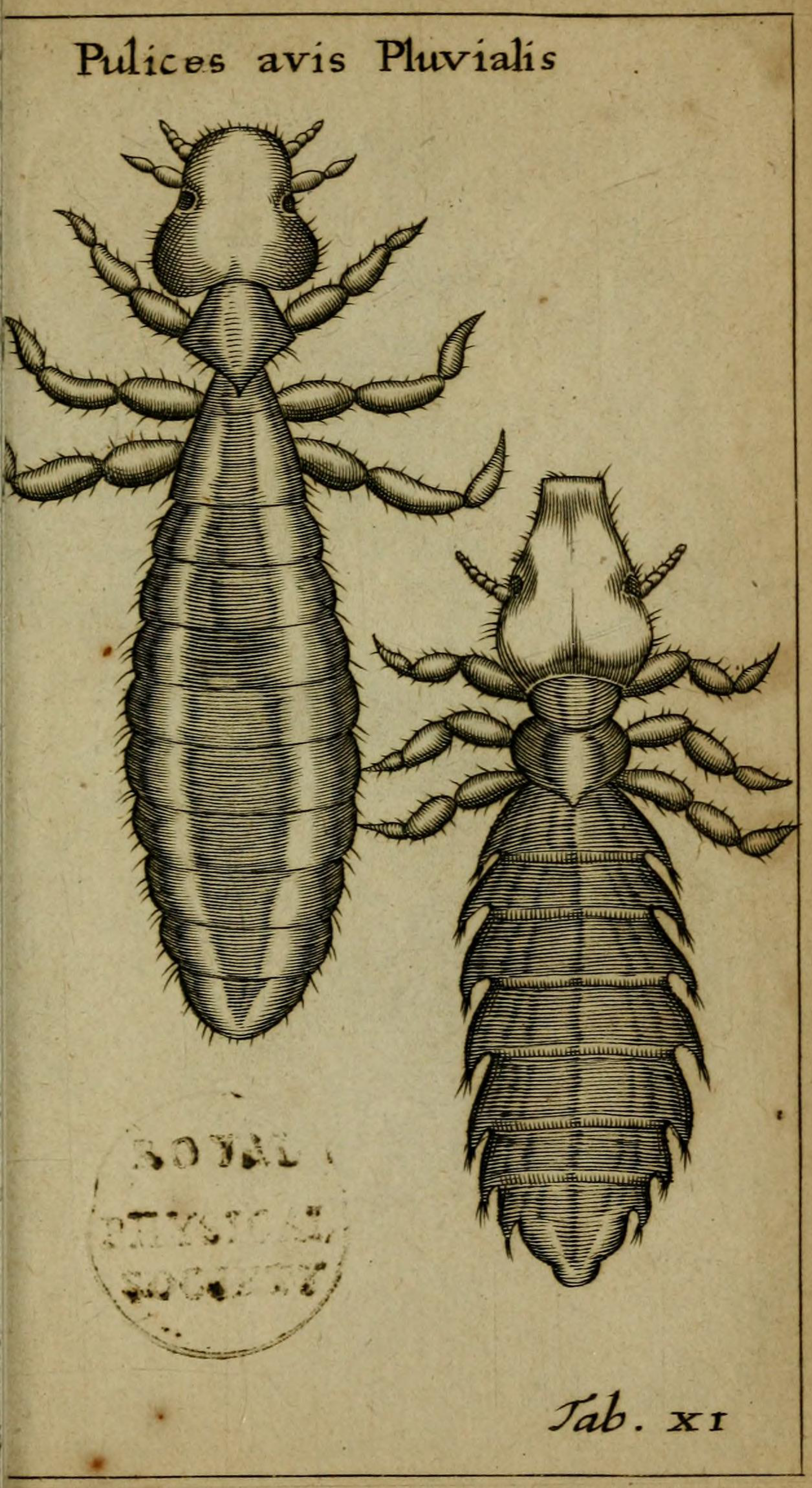 Francesco Redi's plate "Pulices avis Pluvialis". In the original Italian edition titled "Pollini del Piviere". Left later named: Liotheum (Colpocephalum) ochraceum Nitzsch, 1818 = Actornithophilus uniseriatum (Piaget, 1880). Right later named: Pediculus charadrii Linnaeus 1758 = Quadraceps charadrii (Linnaeus, 1758)